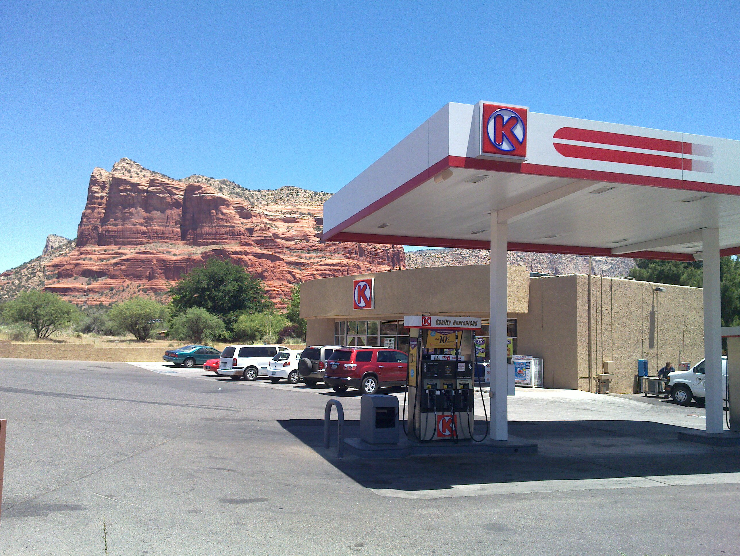 Circle K with some distracting rock behind it